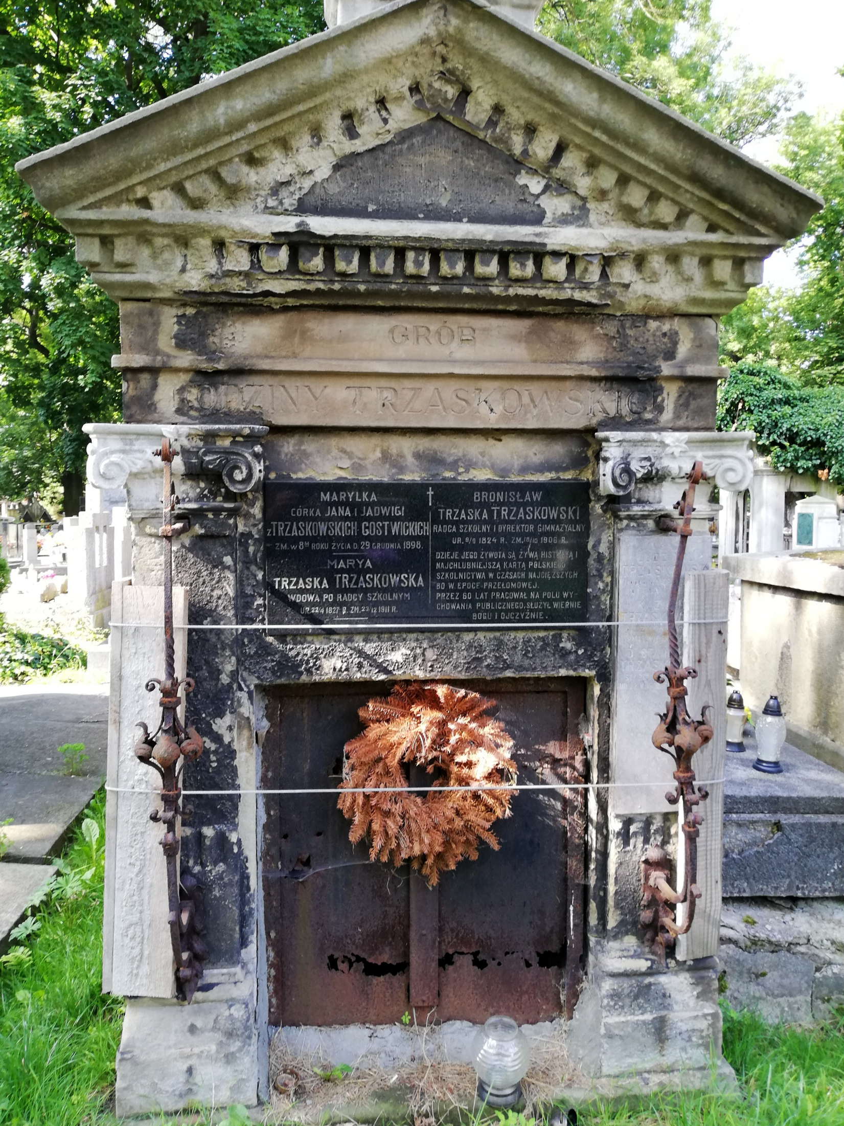 Trzaskowski family tomb on the Rakowice cemetery in Krakow, Poland.